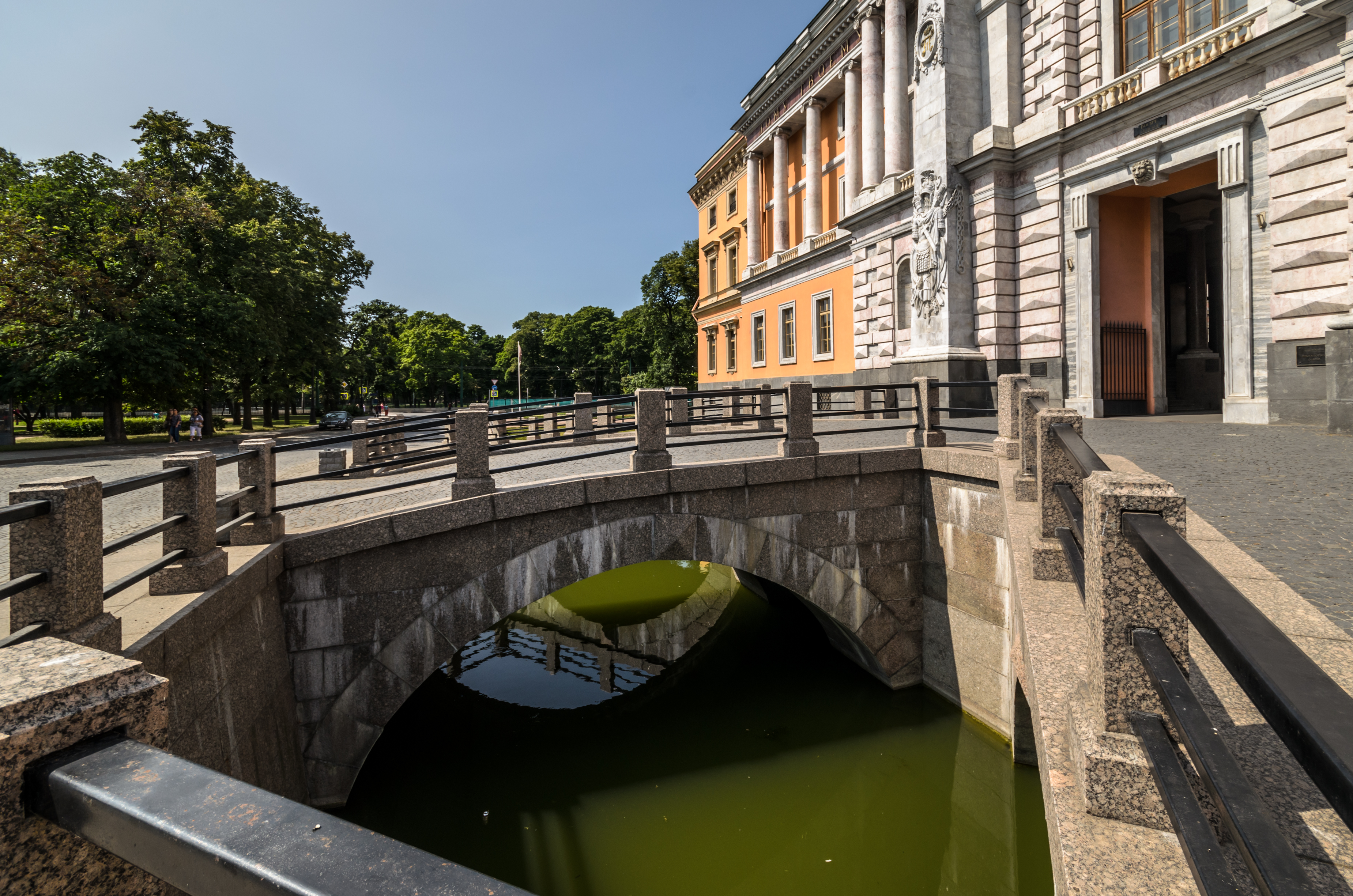 Three-Part Bridge of Saint Michael's Castle in Saint Petersburg